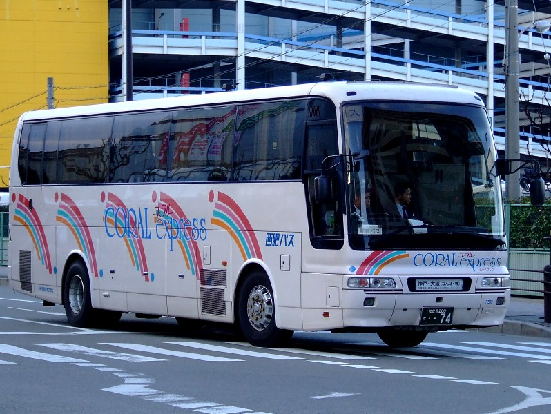 Mitsubishi-Fuso "Aero Queen" of Saihi Bus(reg:Sasebo 200 ka 74) Highway Bus "Coral Express"